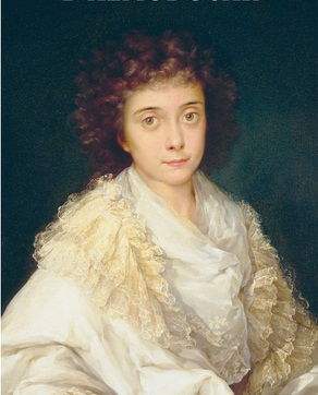 Portrait of Josepa Domènica Català de Valeriola (1764-1814) by Vicent López Portaña